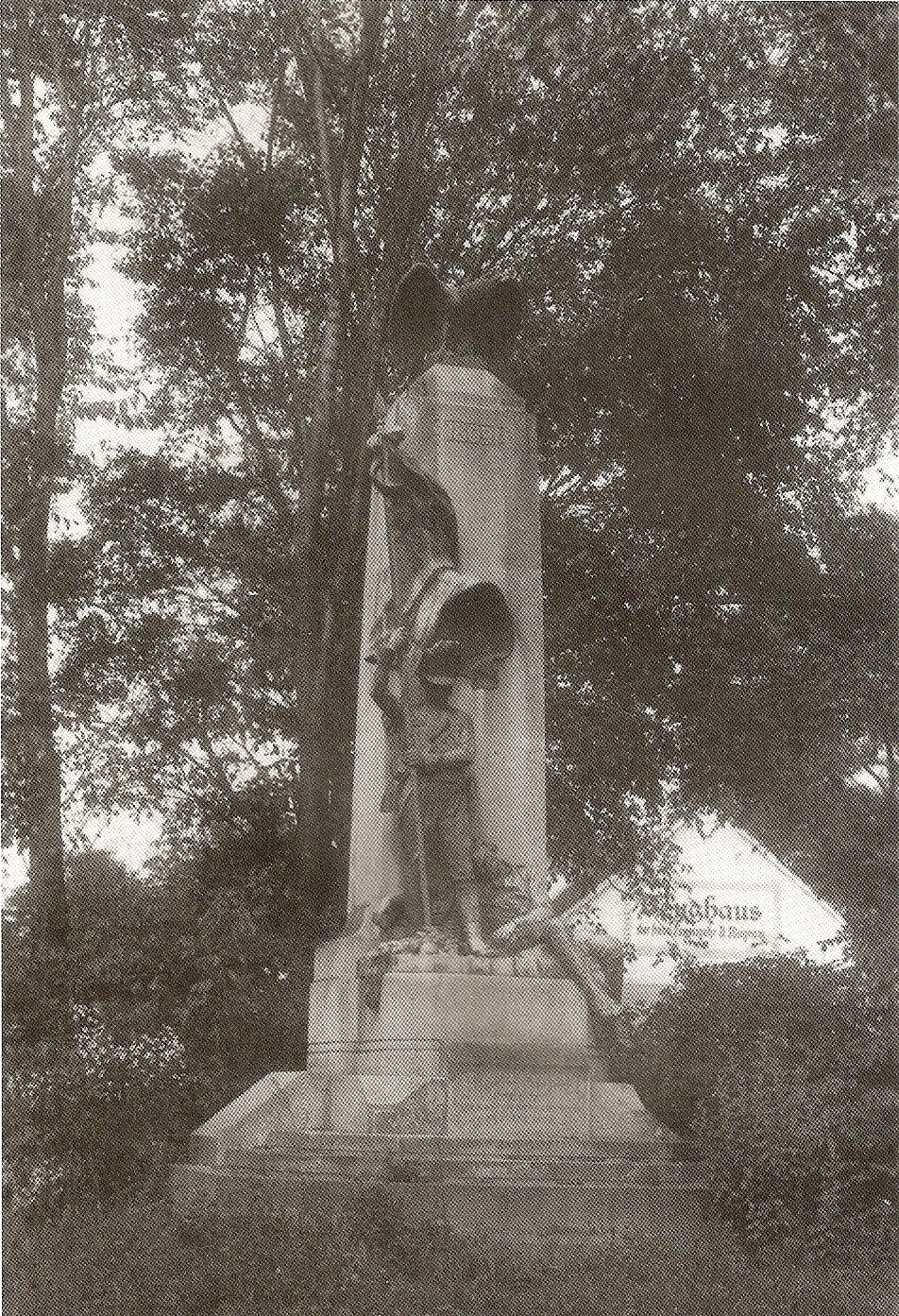 Monument built in the hommage of the soldiers who died in the battle of Wagram (5-6 July 1809; postal card)